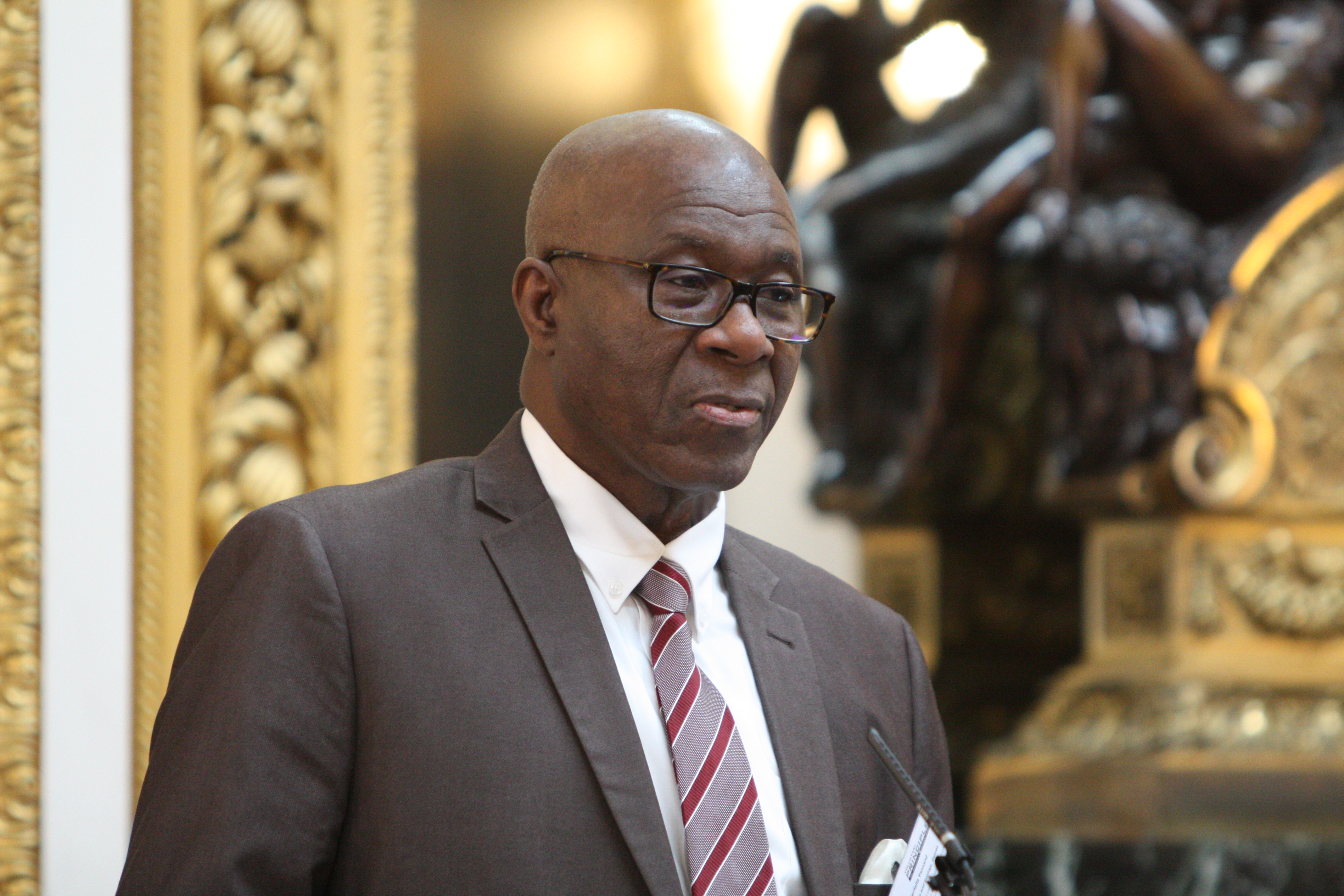 Kerfalla Yansané, Minister of Mines and Geology, Guinea at the Annual Plenary Meeting of the Voluntary Principles on Security and Human Rights Initiative, 17 March 2015, London.